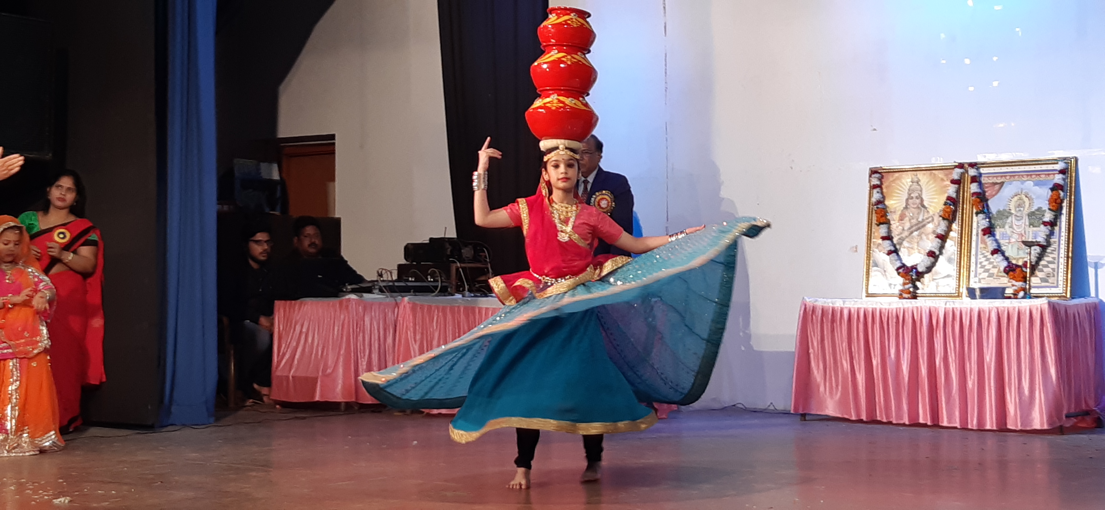 Navya bikaner